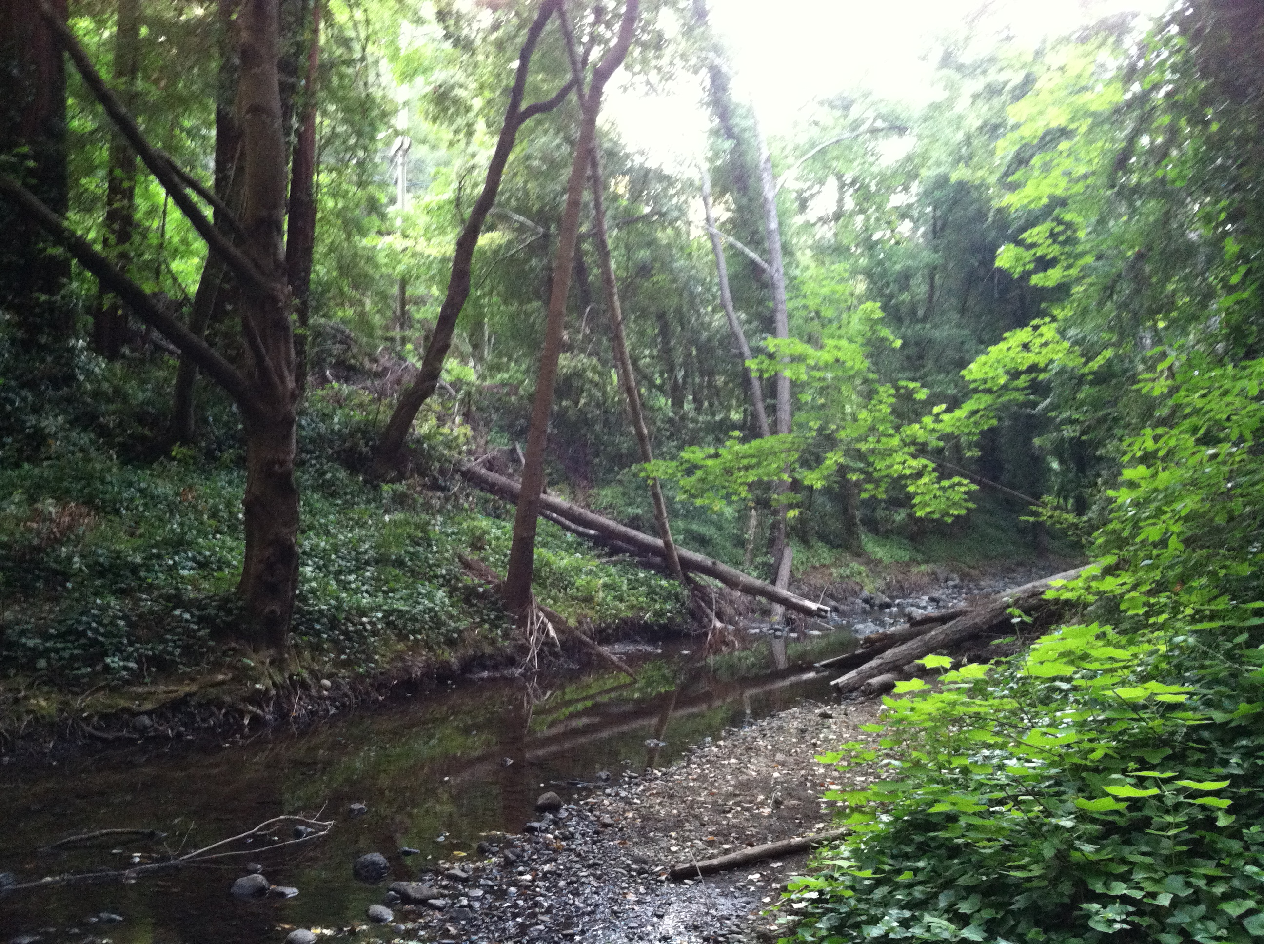 La Honda Creek at Play Bowl, La Honda, CA, June 2015.